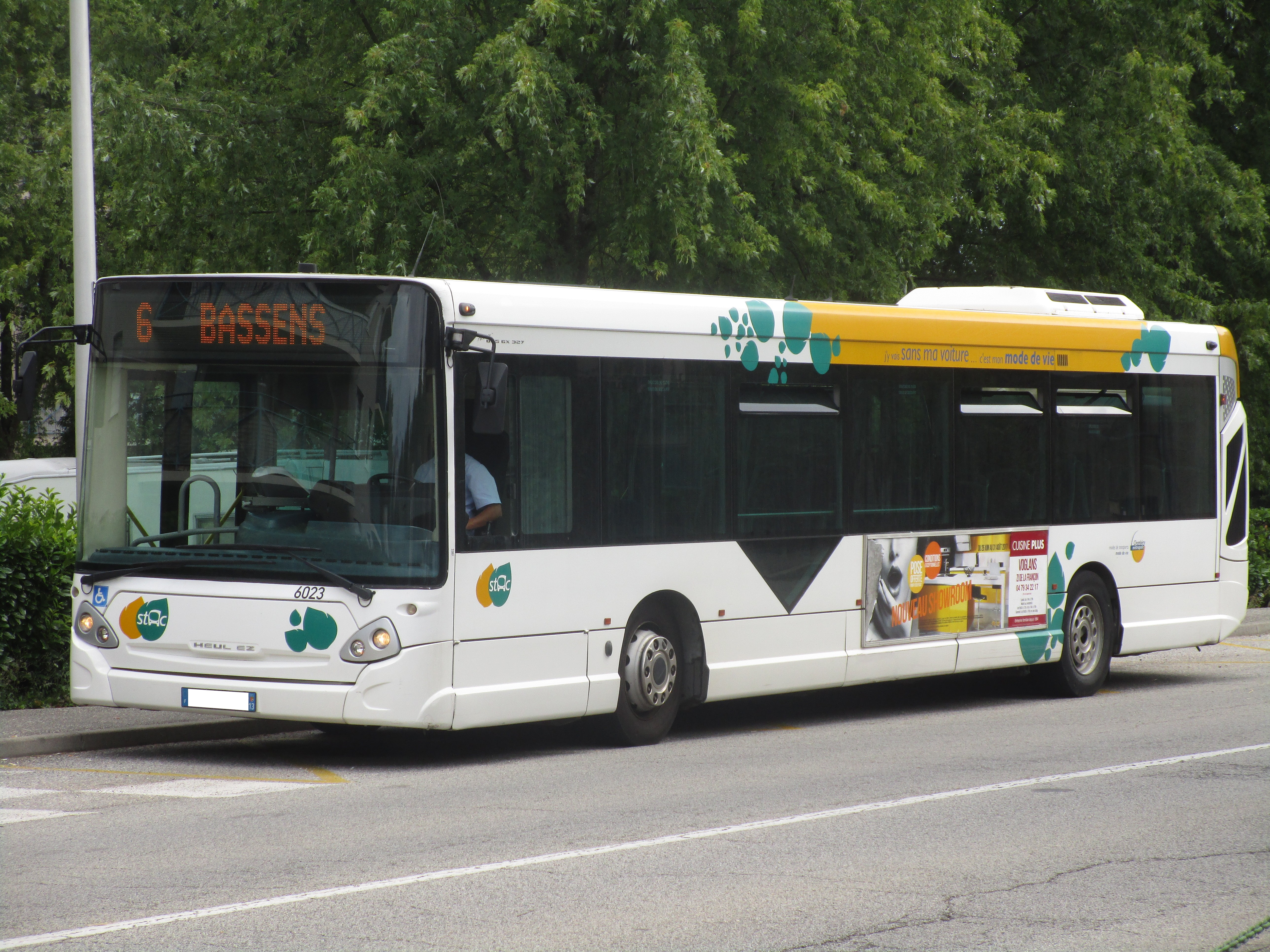 A Heuliez GX 327 (n°6023 of Transdev Rhône-Alpes Interurbain) running on Stac’s line 6 — Saint-Baldoph Centre, Saint-Baldoph↔Galion, Bassens — at the call Saint-Baldoph Centre (Saint-Baldoph, France) on August 30, 2017.